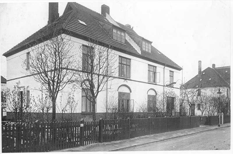 House at Valby Langgade 155 , part of Den Hvide By in Valby, Copenhagen, Denmark